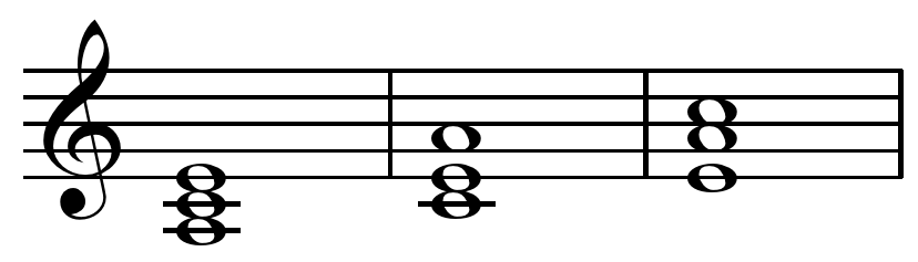 Minor chord root and inversions.